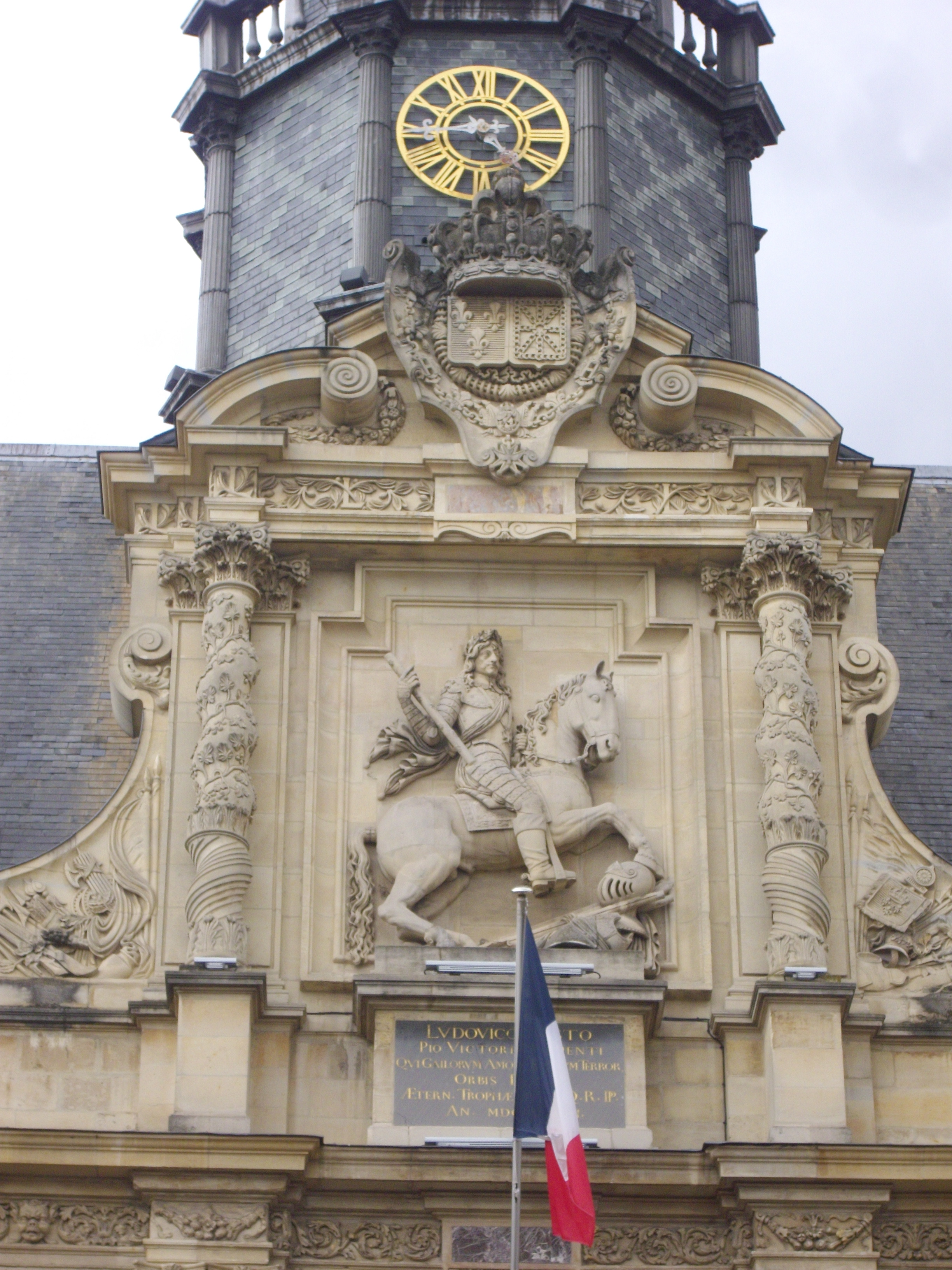 Town hall of Reims (Marne, France), statue of Louis XIII on the facade .